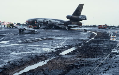 Photo of DC-10 on the runway and tire damage